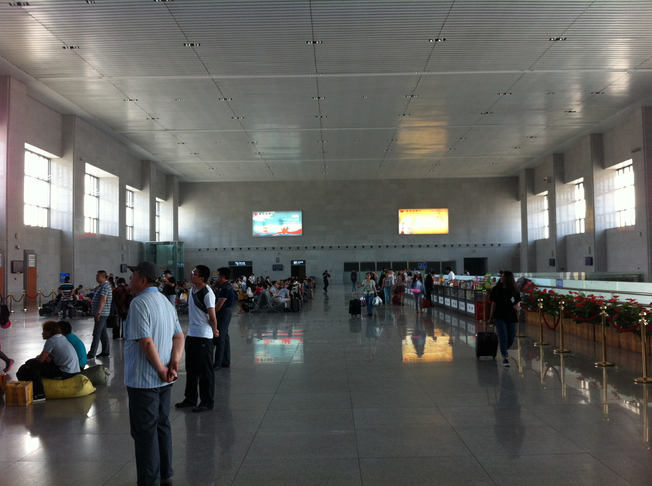 We've just finished the Liujiang Field Works...